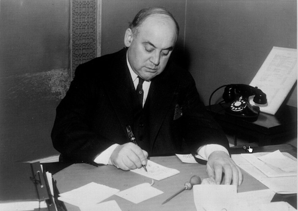 Quebec Public Works minister the Hon. Télesphore-Damien Bouchard (1881-1962) at work in his office, in 1942.